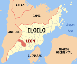 Map of Iloilo showing the location of Leon